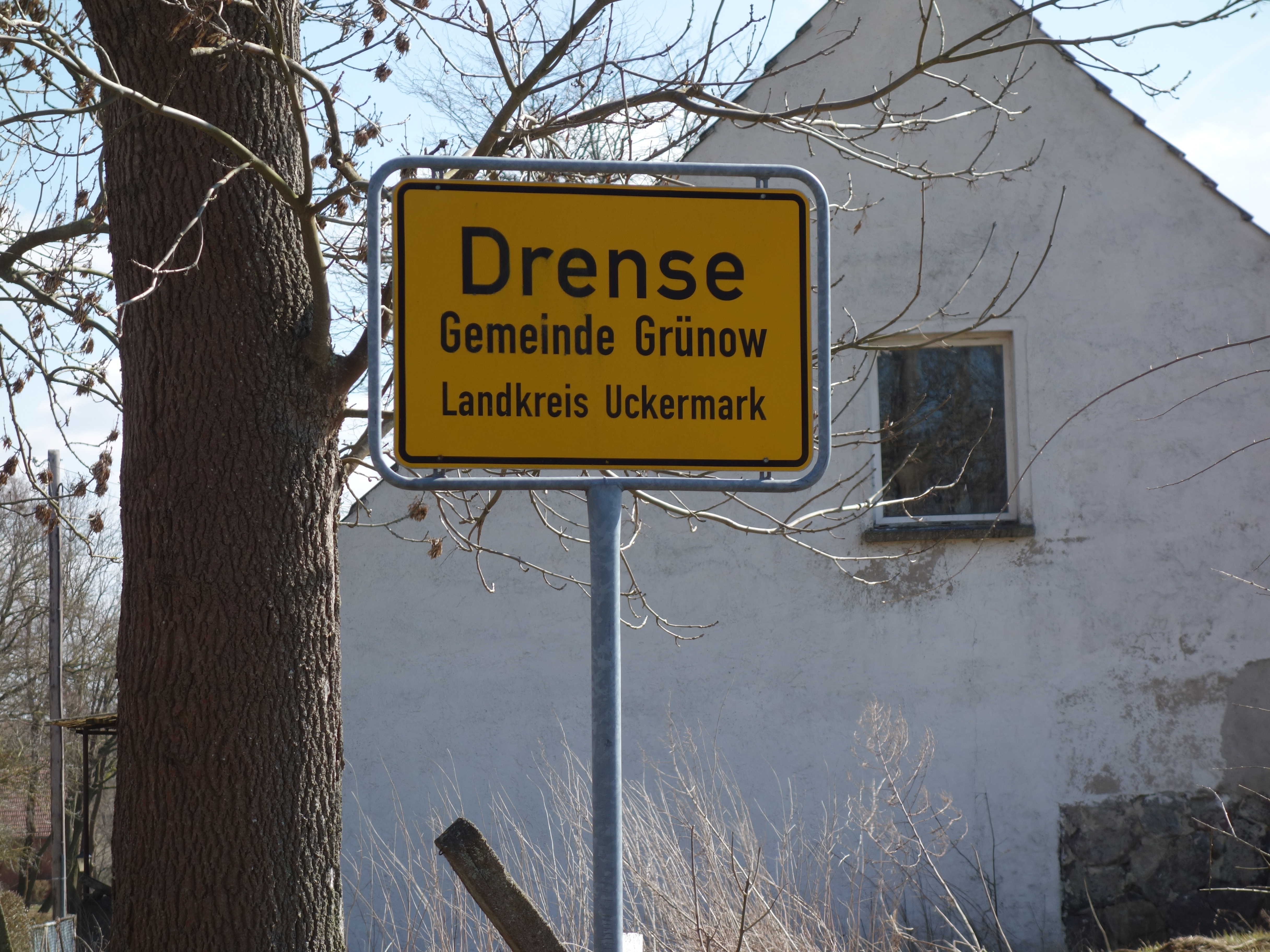 Picture of the place name sign in Drense , Grünow municipality , Uckermark district, Brandenburg state, Germany